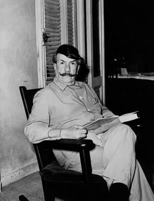 Pick of the Alfredo Palacios in 1961.